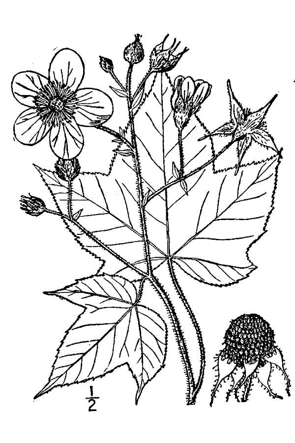 Rubus odoratus L. purpleflowering raspberry